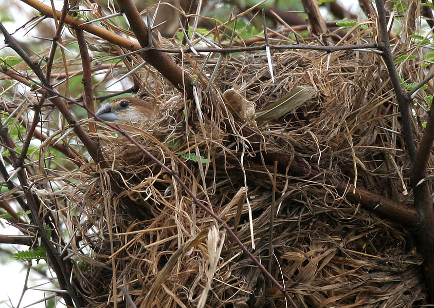 Indian Silverbill or White-throated Munia Lonchura malabarica - Hindi: Charchara, Charga, Charakka, Pidda, Pun: Chittgali munia, Ben: Piduri, Sar munia, Guj: Pavai munia, Munia, Tapushiyu, Sweth kanth tapushiyu, Mar: Malmunia, Ta: Nellu-kuruvi, Te: Jinuwayi, Mal: Vayalatta, Kan: Bili kantada munia, Sinh: Wee-kurulla- at Pocharam lake, Andhra Pradesh, India.